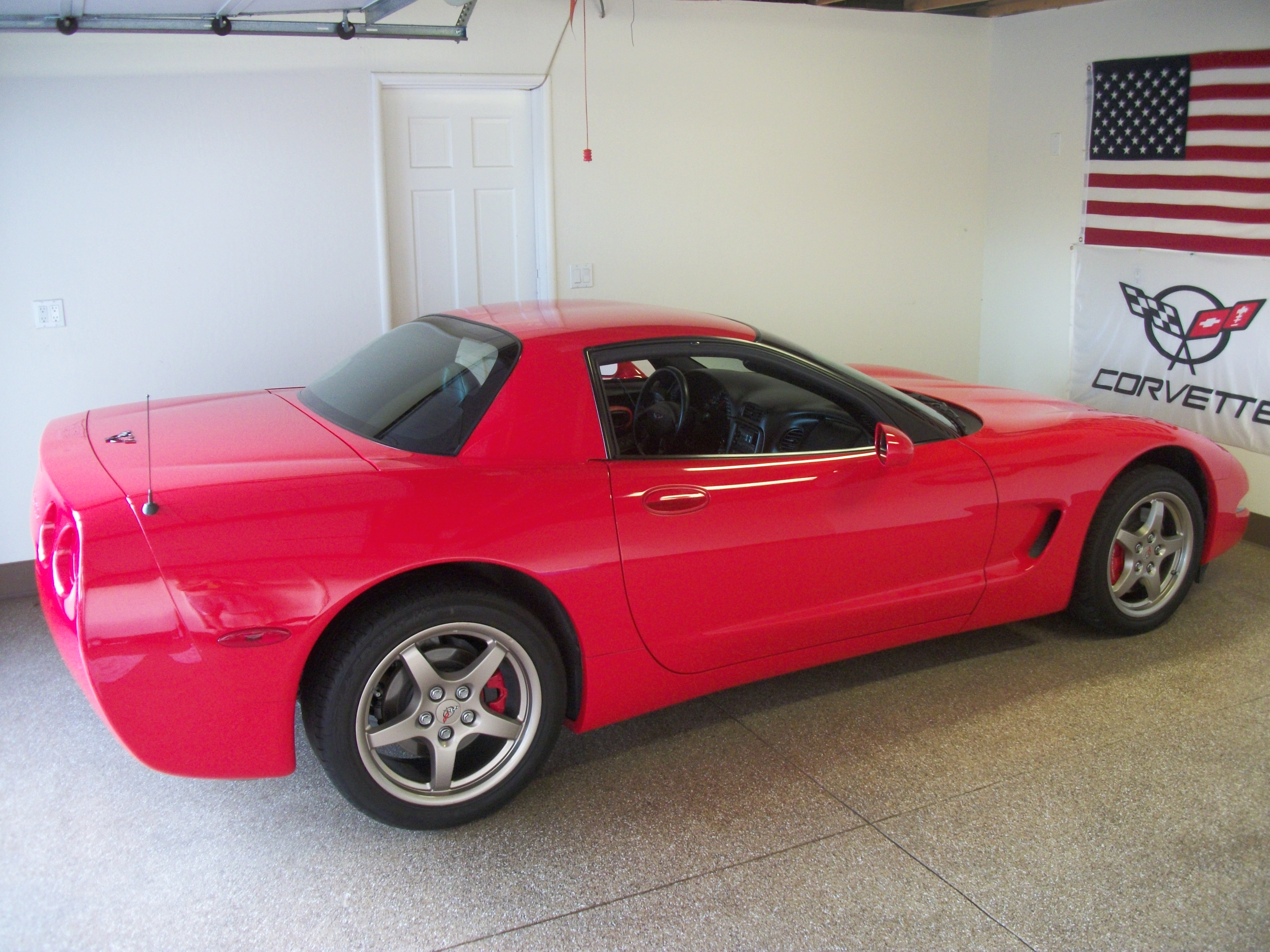 C5 hardtop